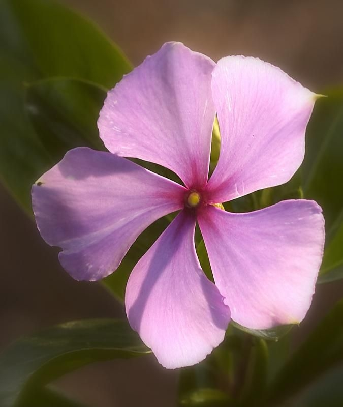 The Rosy Periwinkle (Catharanthus roseus) or Vinca rosea as it was known earlier, is a native of Madagascar and is found commonly growing around human habitations in India. This plant is considered to be highly medicinal and was known to African tribals for various cures. In the modern day it is used to cure certain types of cancer in children. The alkaloids present in the flower, vincristine and vinblastine, are used in chemotherapy for childhood leukemia. The plant is a known hallucinogen and is toxic if consumed orally.